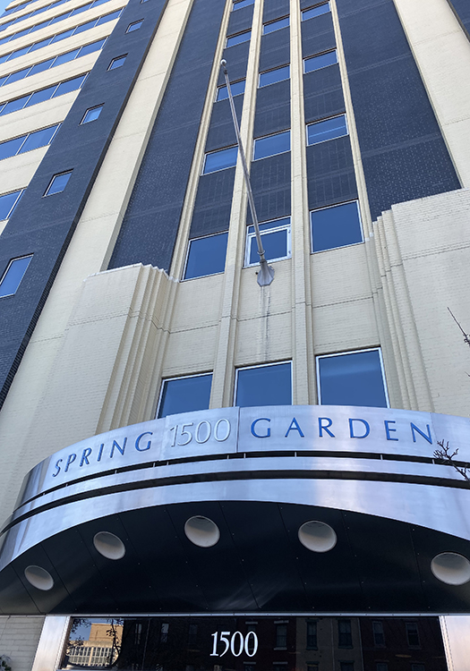 Photograph of 1500 Spring Garden Street, Philadelphia PA